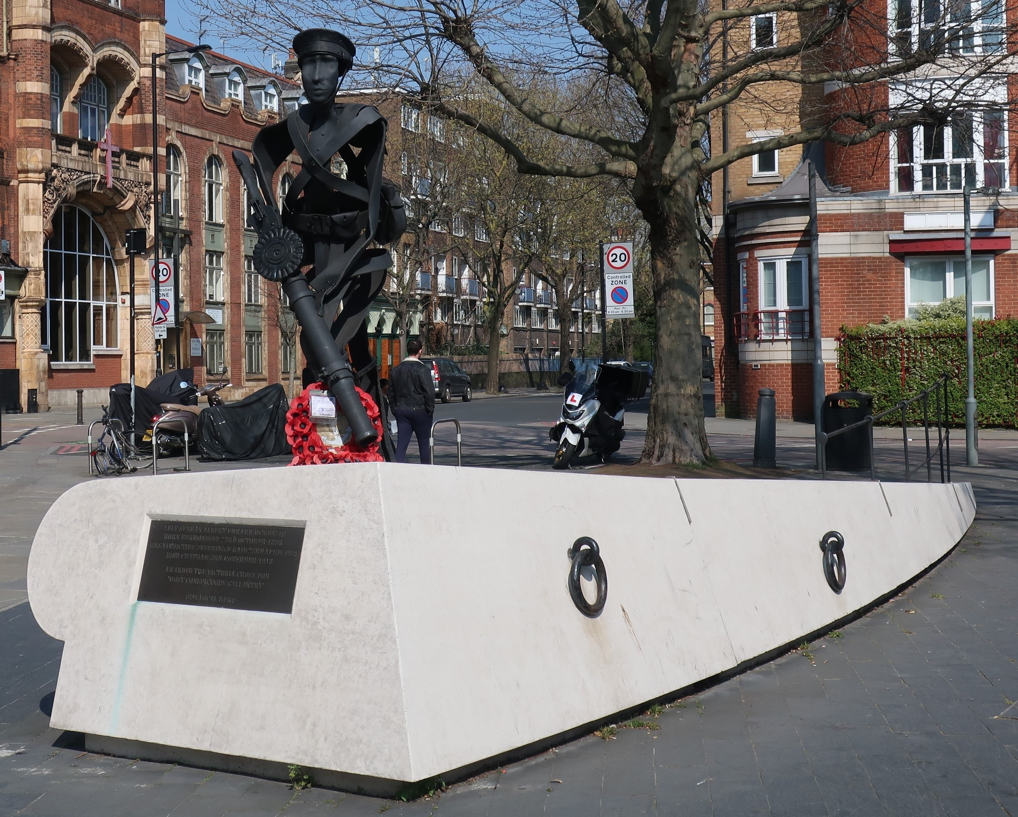 Memorial to Albert McKenzie VC at the junction of Tower Bridge Road and Bermondsey Street, Bermondsey, London SE1 (London Borough of Southwark), unveiled 23 October 2015